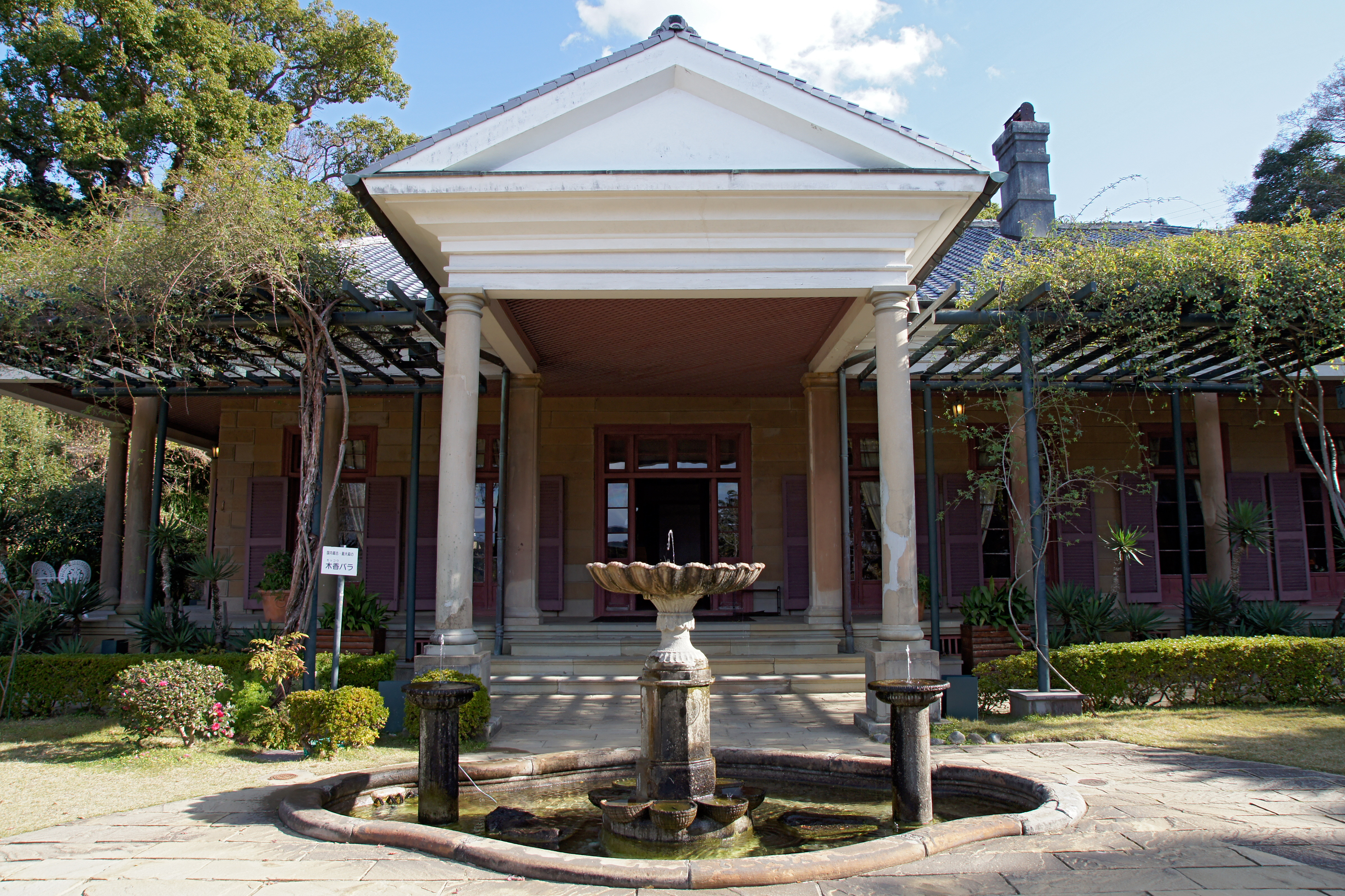 Alt House in Glover Garden, Nagasaki, Nagasaki prefecture, Japan